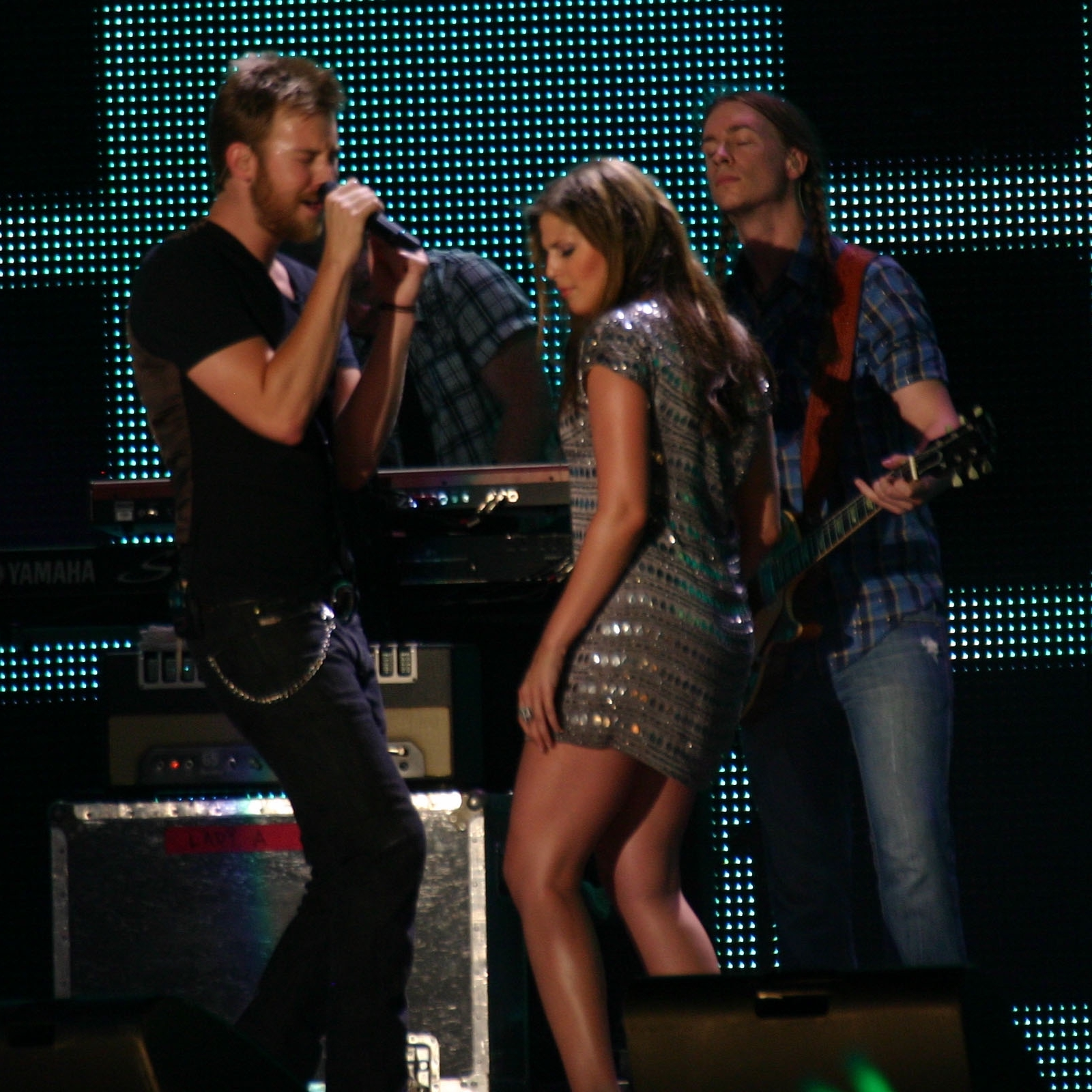 Lady Antebellum in performance